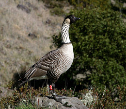 The State Bird of Hawaii, the Nene is normally seen in the upper elevation grasslands where it feeds on grasses, seeds and berries. Credit: USFWS